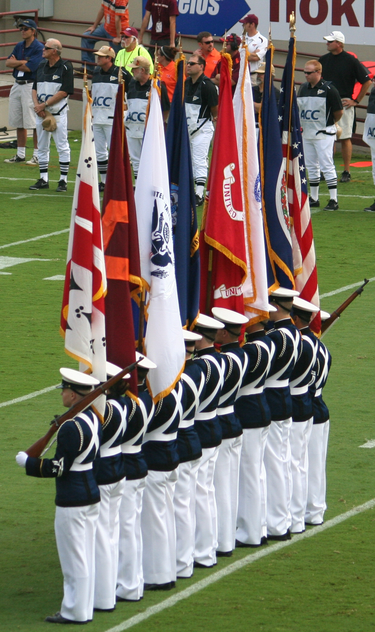 The Virginia Tech Corps of Cadets color guard on display at the 2007 Virginia Tech Hokies football team's home opener against East Carolina University